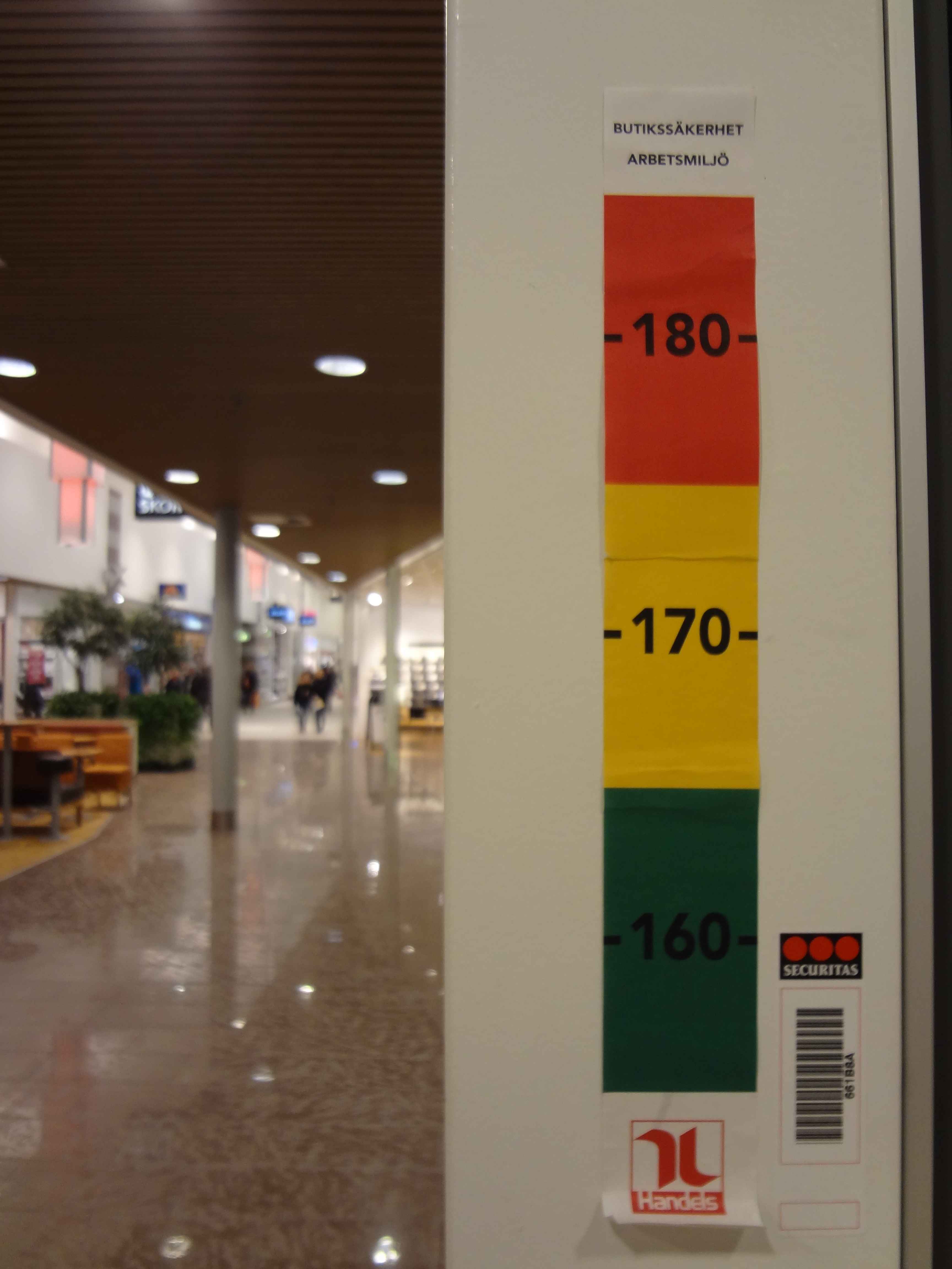 Markings for length in a shop.